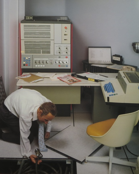 The IBM 360 represents the launching of mainframe computers for commercial applications